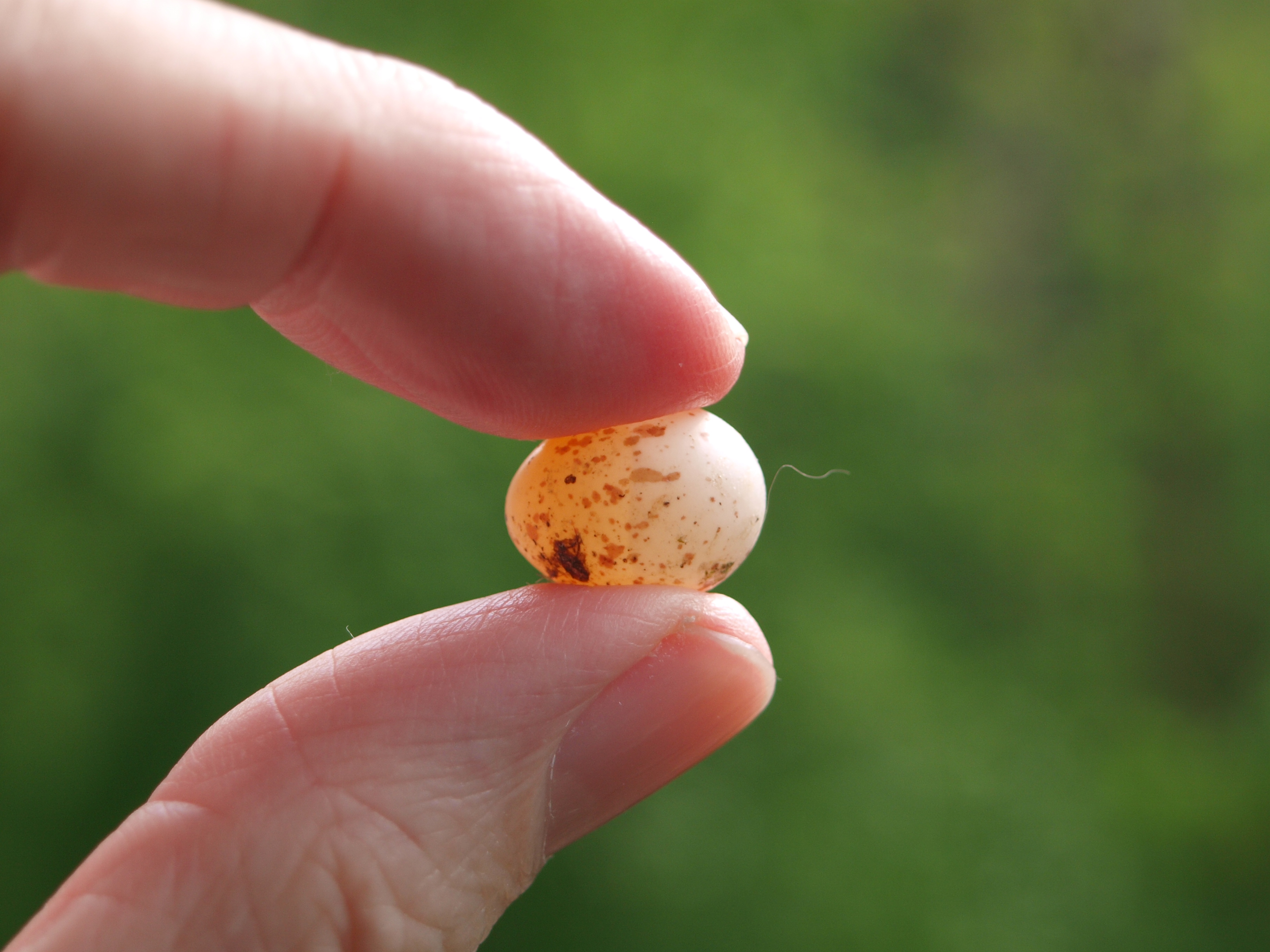 egg of a blue tit